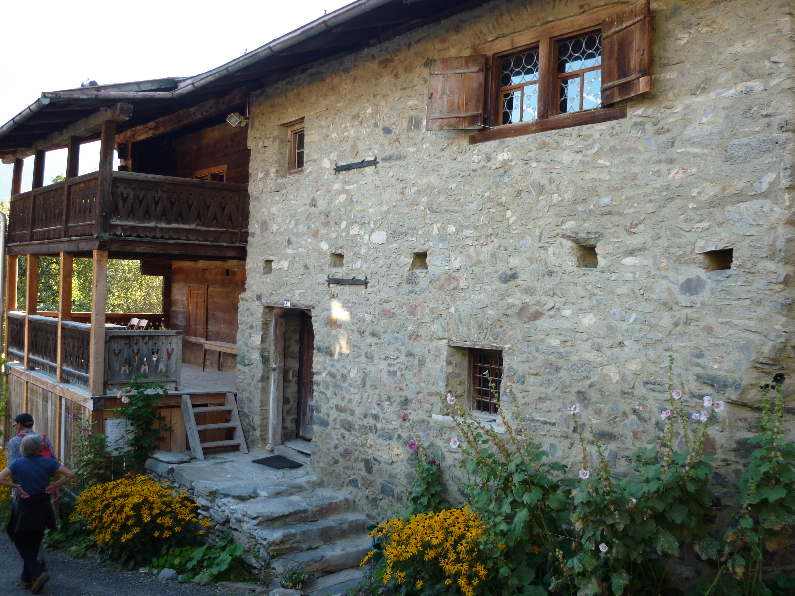 Putz GR, Switzerland